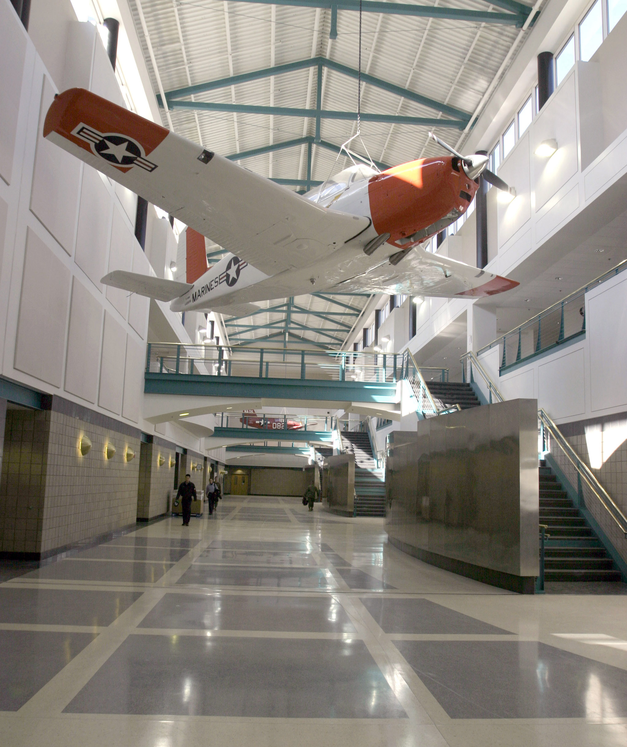 Pensacola, Fla. (Jan. 26, 2005) - A T-34B Mentor trainer aircraft hangs in the North Atrium of the newly renovated Chevalier Hall building at the Naval Air Technical Training Center (NATTC) on board Naval Air Station Pensacola, Fla. Chevalier Hall was rebuilt after being devastated with heavy damage from Hurricane Ivan in September 2004. Chevalier Hall is the home of aviation technical schools where new Sailors receive their initial training before being assigned to the Fleet. U.S. Navy photo by Photographer's Mate 2nd Class Mark A. Ebert (RELEASED)